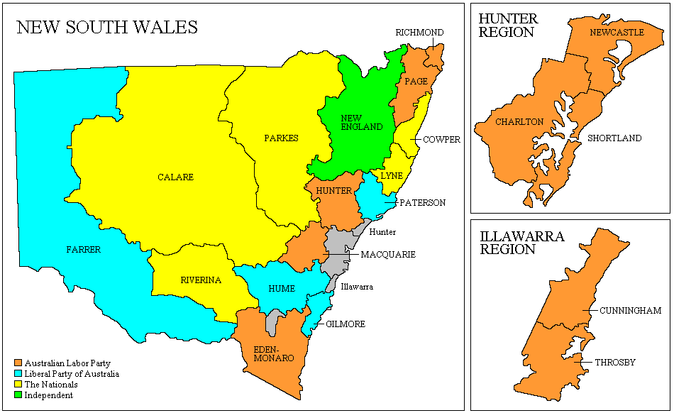 Map of electorates in NSW